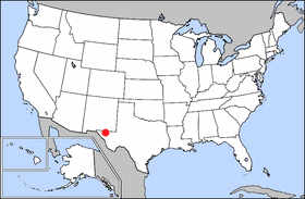 Map of the United States showing the location of Guadalupe Mountains National Park in Texas.